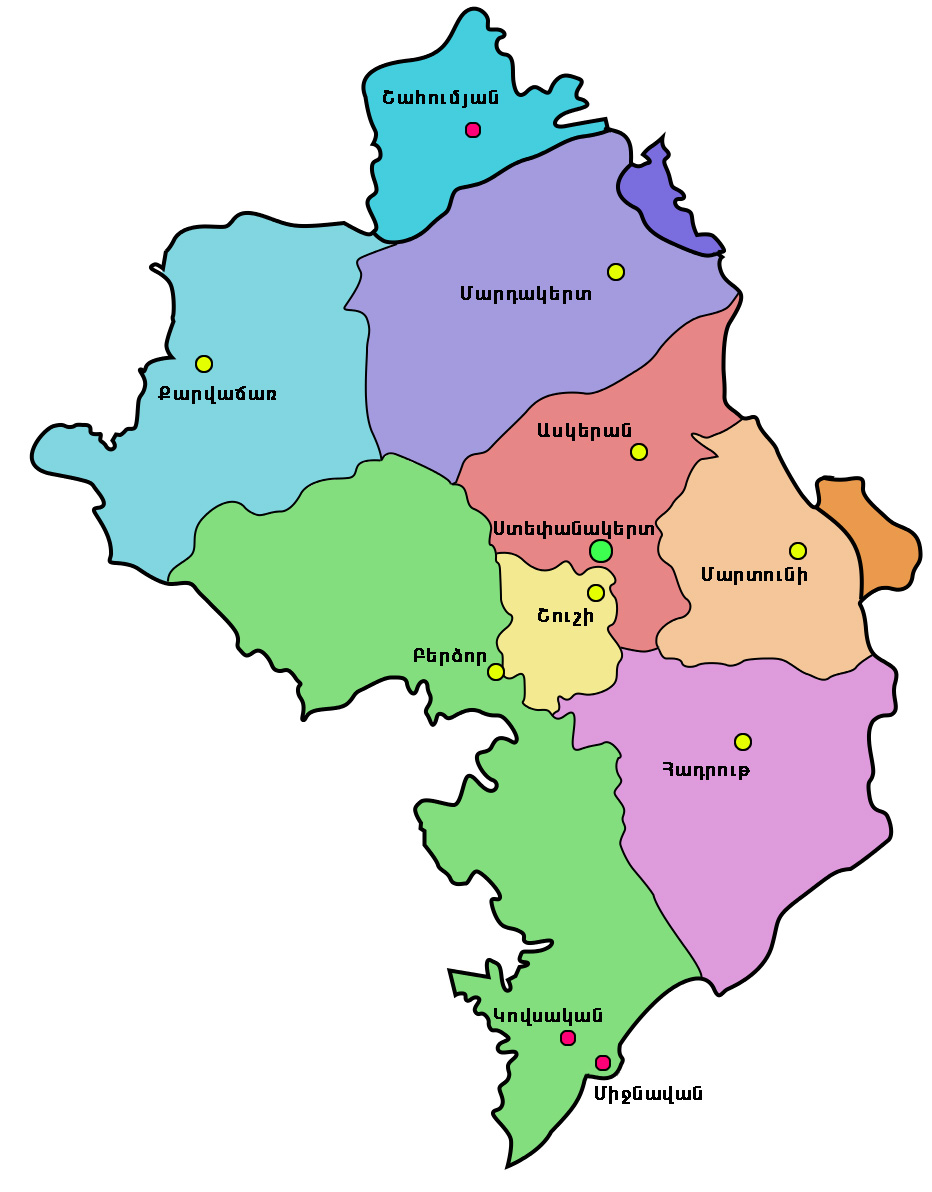 Administrative divisions of Artsakh, with Armenian labels. Dark areas are occupied by Azerbaijan.